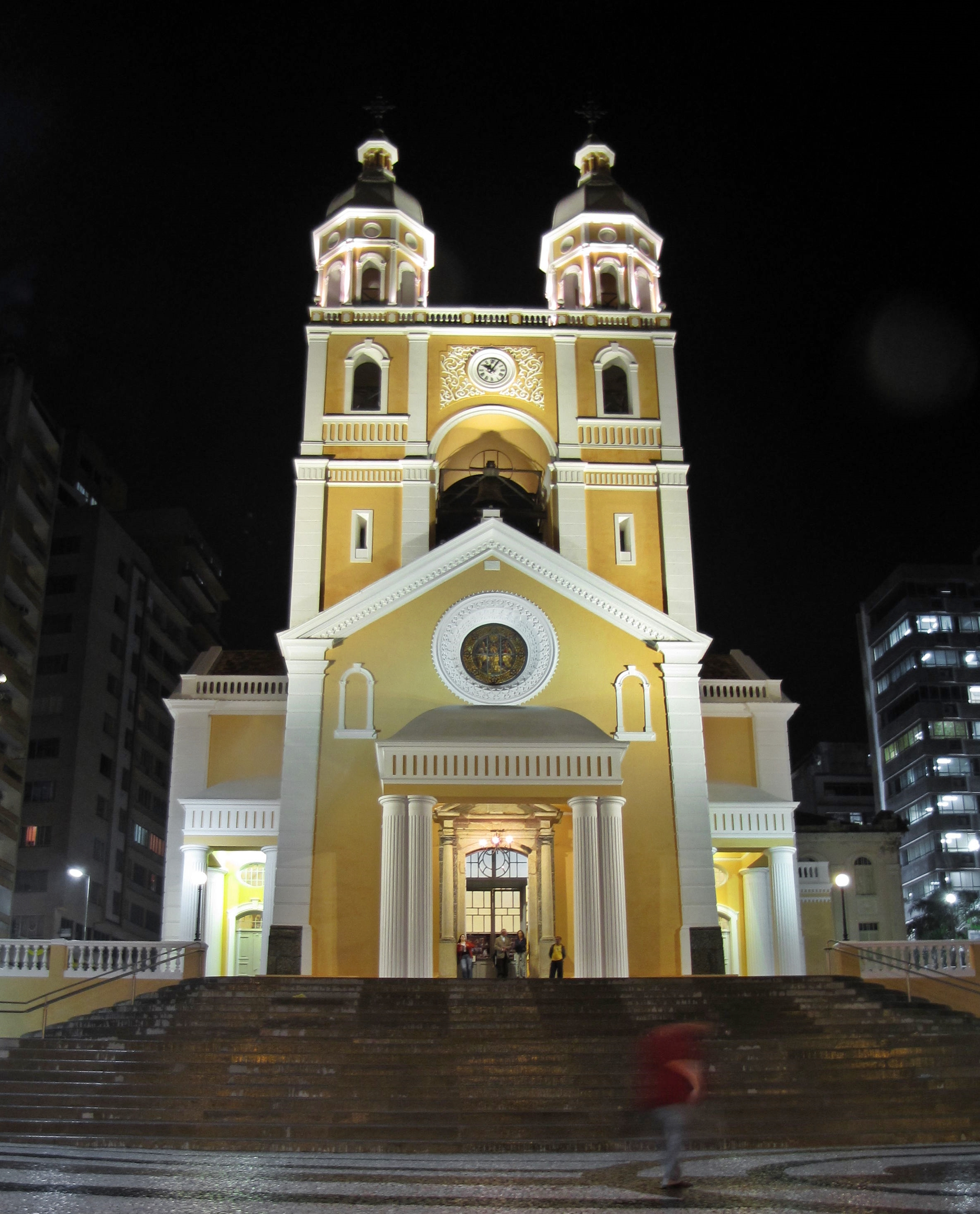 Florianópolis' Cathedral